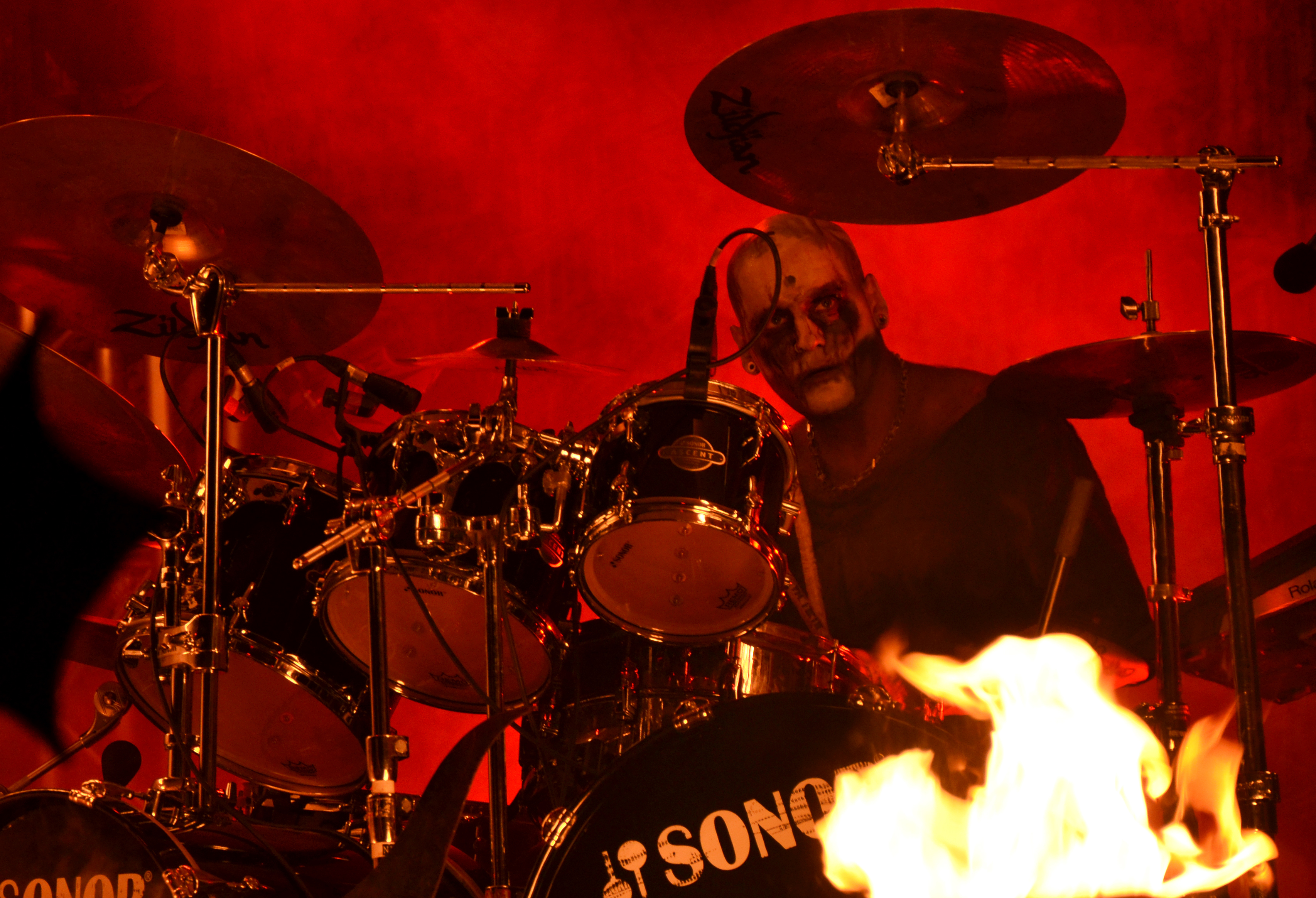 Watain at the Fall of Summer Festival, in Torcy, the 6th of September 2014.